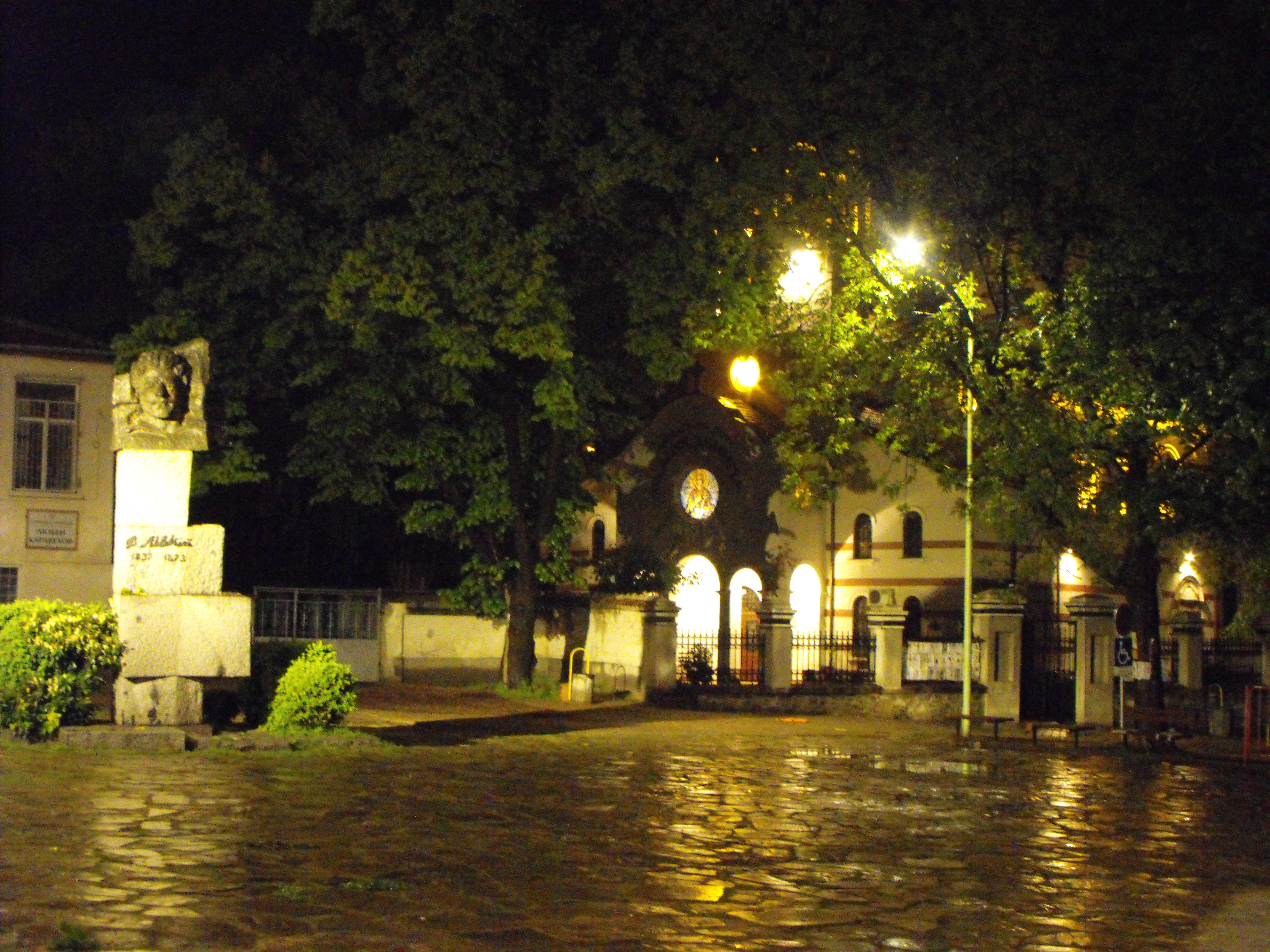 Church "Saint Demetrius" and the monument of Vasil Levski in Stara Zagora, Bulgaria